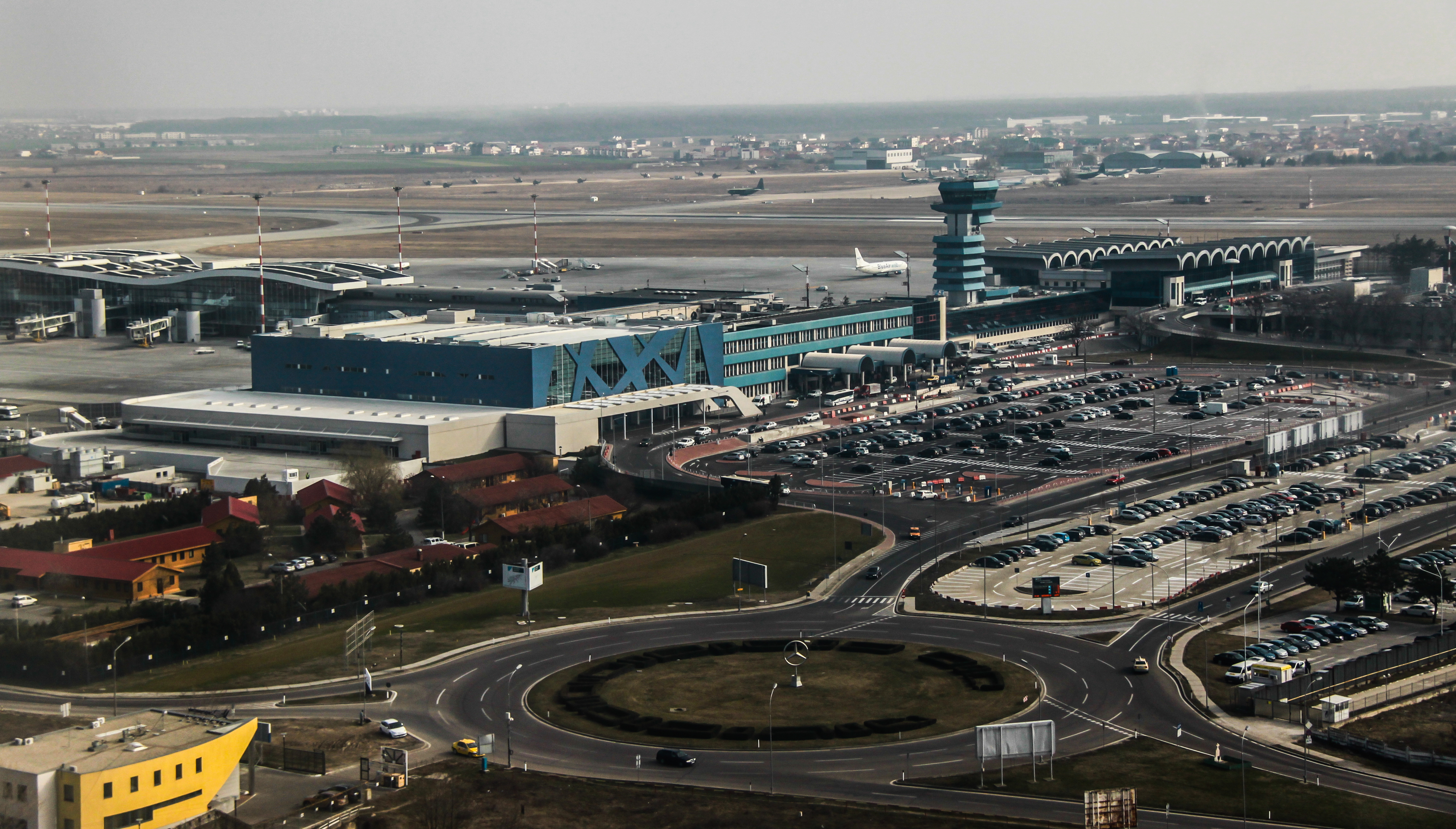 Henri Coandă International Airport in March 2013